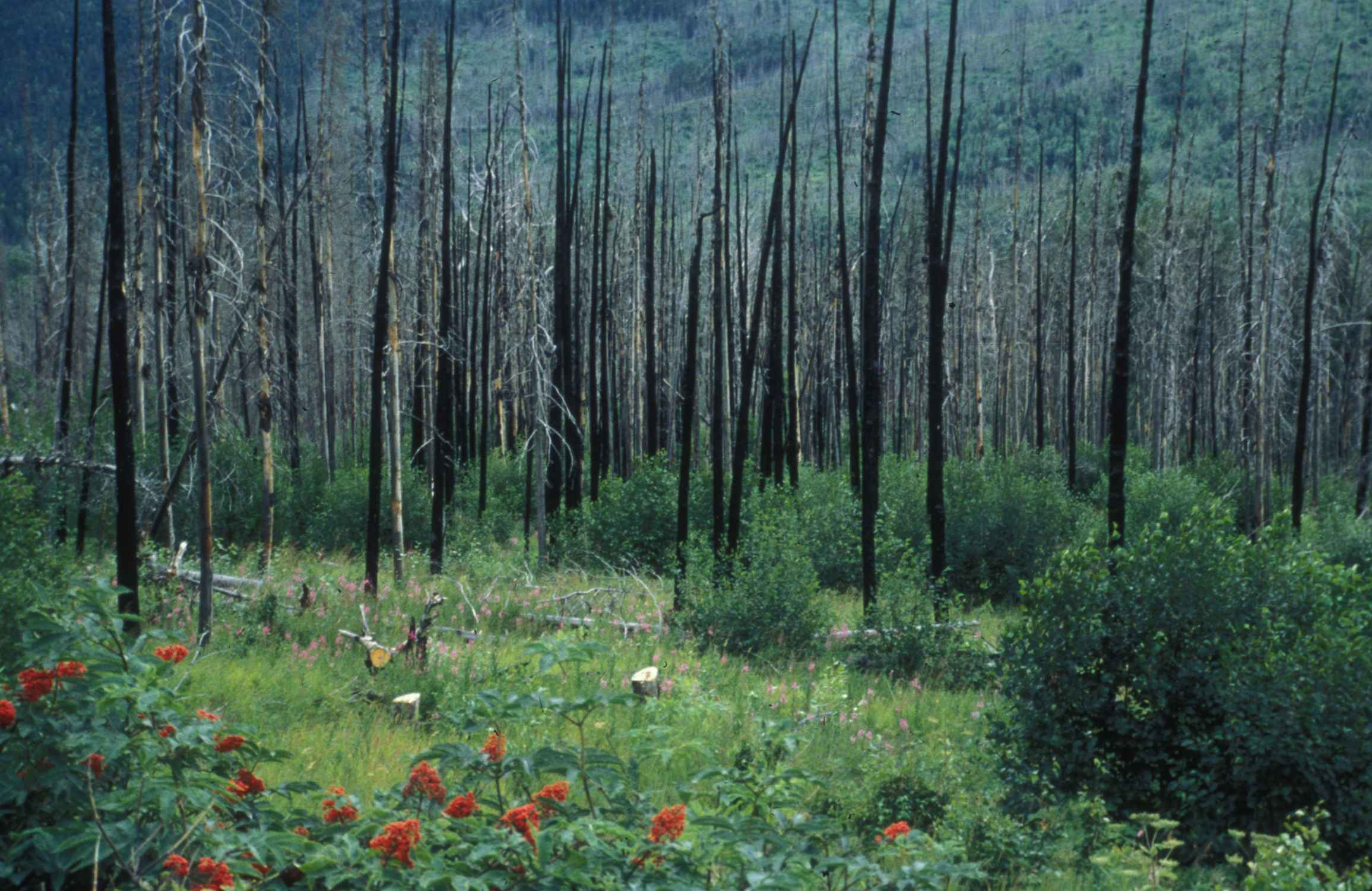 Image title: Regrowth after forest fire Image from Public domain images website